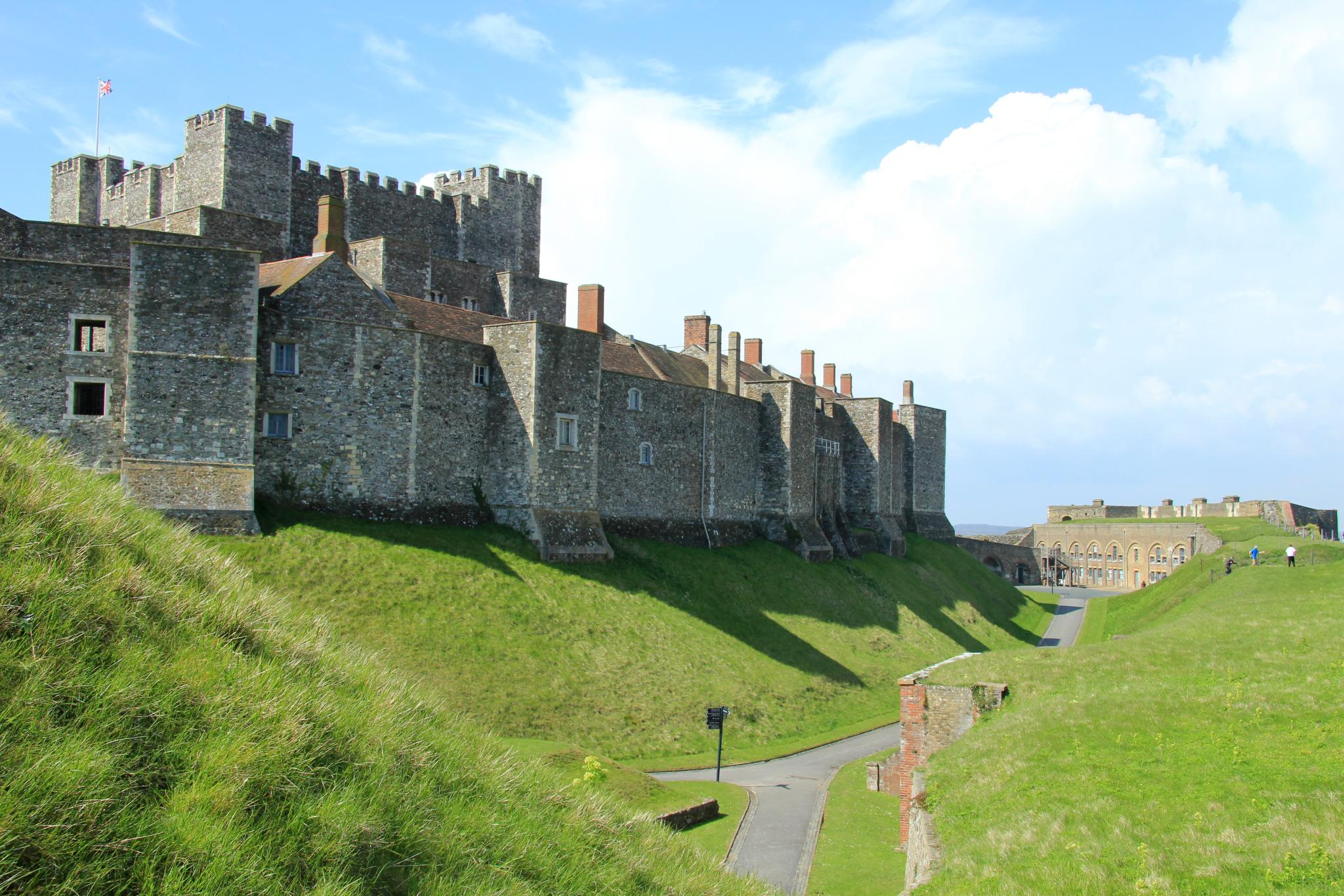 For a great family day out in Kent visit Dover Castle, open all year round. Immerse yourself in our dramatic new visitor experience, Operation Dynamo: Rescue from Dunkirk, open now to visitors. Spectacularly situated above the White Cliffs of Dover this magnificent castle has guarded our shores from invasion for 20 centuries - now you can enjoy a great family day out with a visit to the 'Key to England'. Explore the darkly atmospheric Secret Wartime Tunnels now with a vivid recreation of the Dunkirk evacuation, complete with dramatic projections of swooping Spitfires and real film footage. Watch Heart FM's breakfast team James & Charlie as they experience Operation Dynamo. Enjoy a colourful contrast with the richly-furnished Great Tower, where costumed actors introduce medieval life at King Henry II's court. With exciting exhibitions, winding tunnels to explore, ghosts to hunt out - and of course restaurants, shops and the space for youngsters to run around - an action-packed, great value day out awaits!